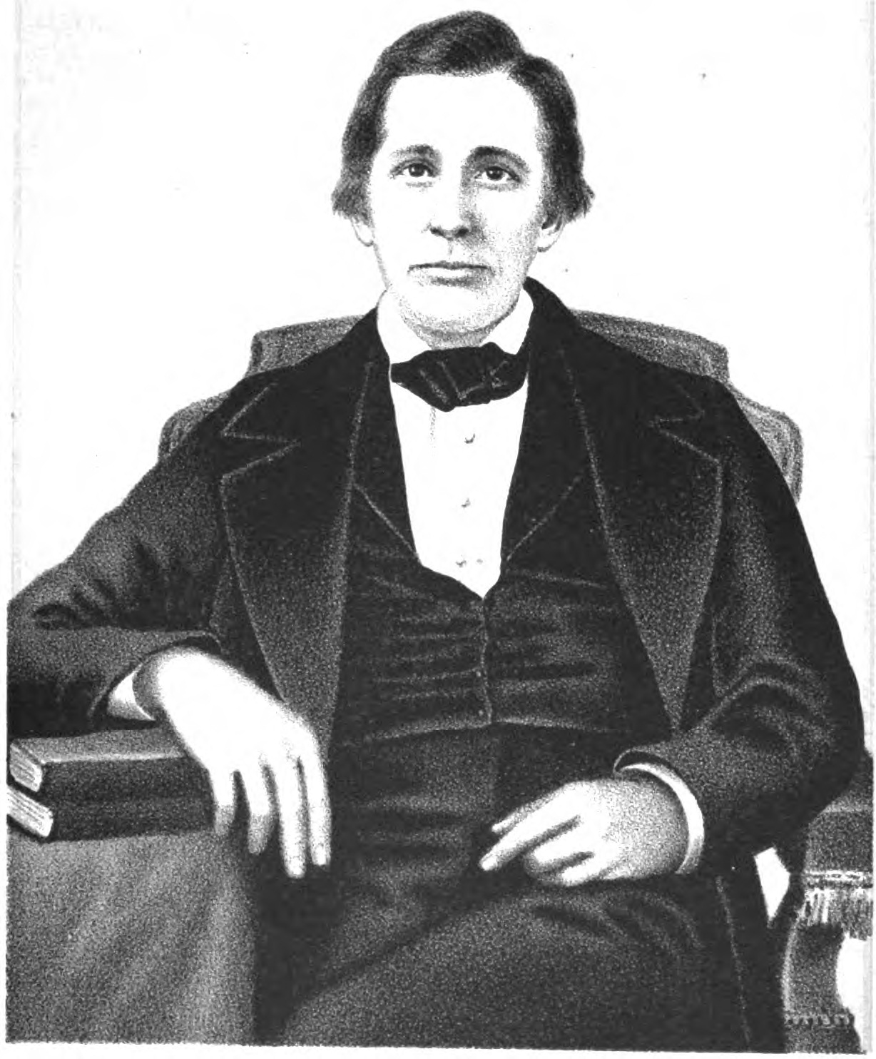 Perley B. Johnson, member of the United States House of Representatives from McConnelsville, Ohio.